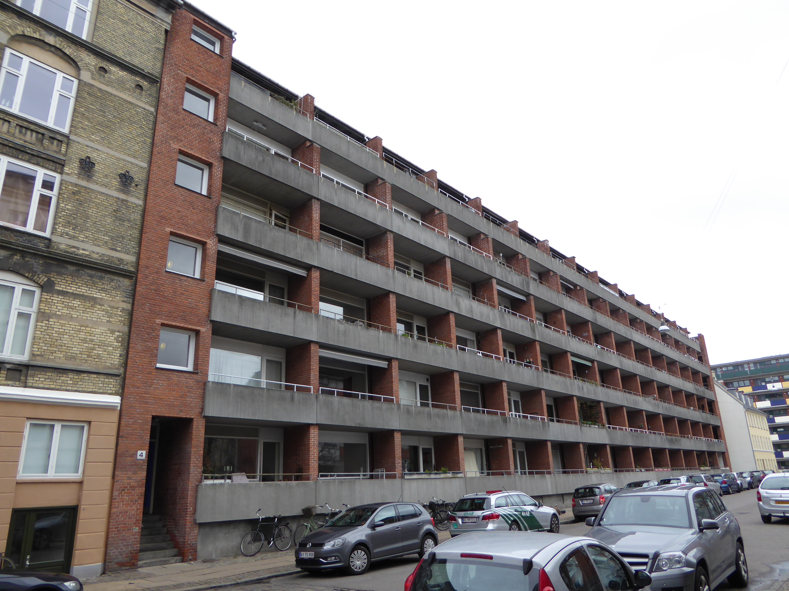 Apartment building at Thyrasgade in Nørrebro in Copenhagen.